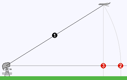 Slant range (1) is the line-of-sight distance between two points which are not at the same level relative to a specific datum. In the absence of altitude information, the location of an aircraft flying at high altitude would be plotted farther (2) from a RADAR antenna than its actual ground track (3), which follows a circular trace.